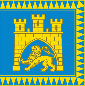 Flag of Lvov in Ukraine.